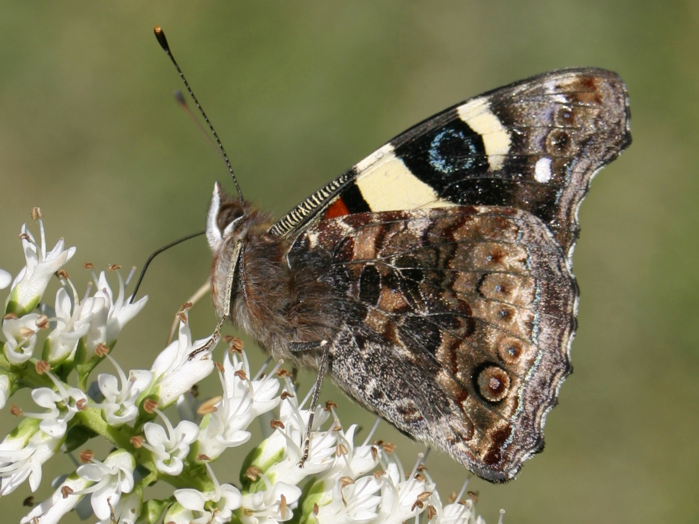 Yellow Admiral Butterfly feeding on a variety of Hebe. It shows under-wing detail and extended tongue while feeding. Wellington, New Zealand.